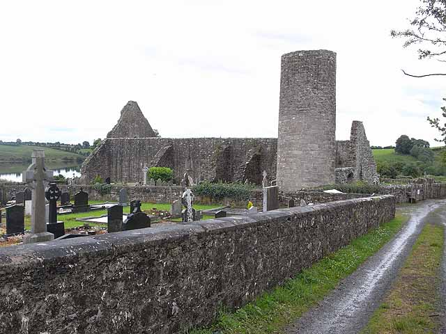 The round tower, Drumlane Abbey A monastery was founded here in the 6th century, either by St Colmcille or St Maodhog. The main building to survive from this period is the round tower, of which the lower part dates from the 10th or 11th century. In the mid-12th century, the Abbey was re-founded by the Augustinians and the upper section of the tower was added possibly in the 15th century. Most of what survives of the Church dates from the 15th and 17th centuries.